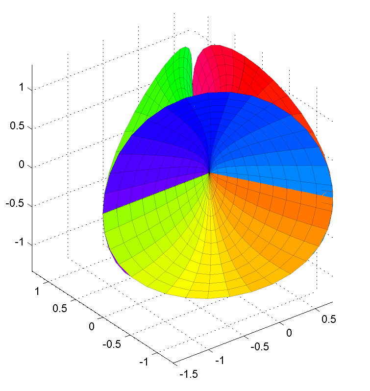 Graph of Bour's surface, with parameters r in [0,1] and theta in [0,4pi]. The surface is colored by theta, making the self-crossings evident.